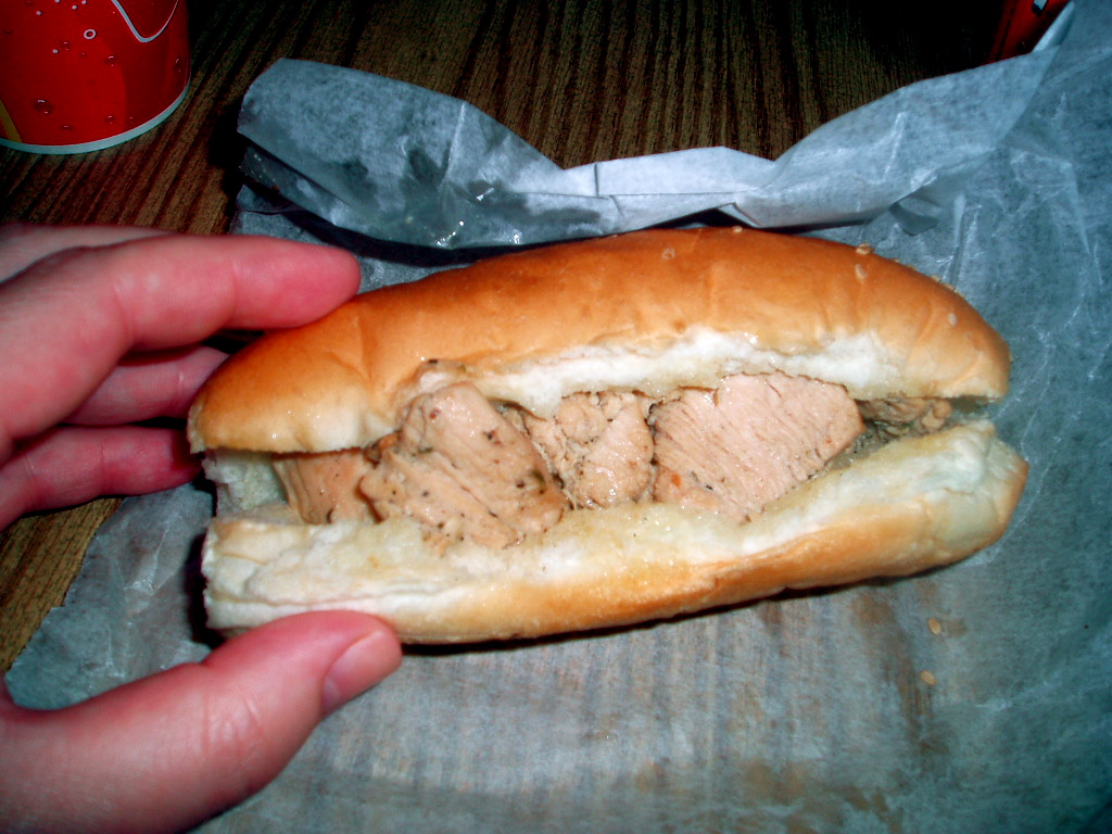 It's very tasty :) The chicken (or pork) is marinated in one of the Spiedie brand sauces, grilled then served as a sandwich :) yum :D